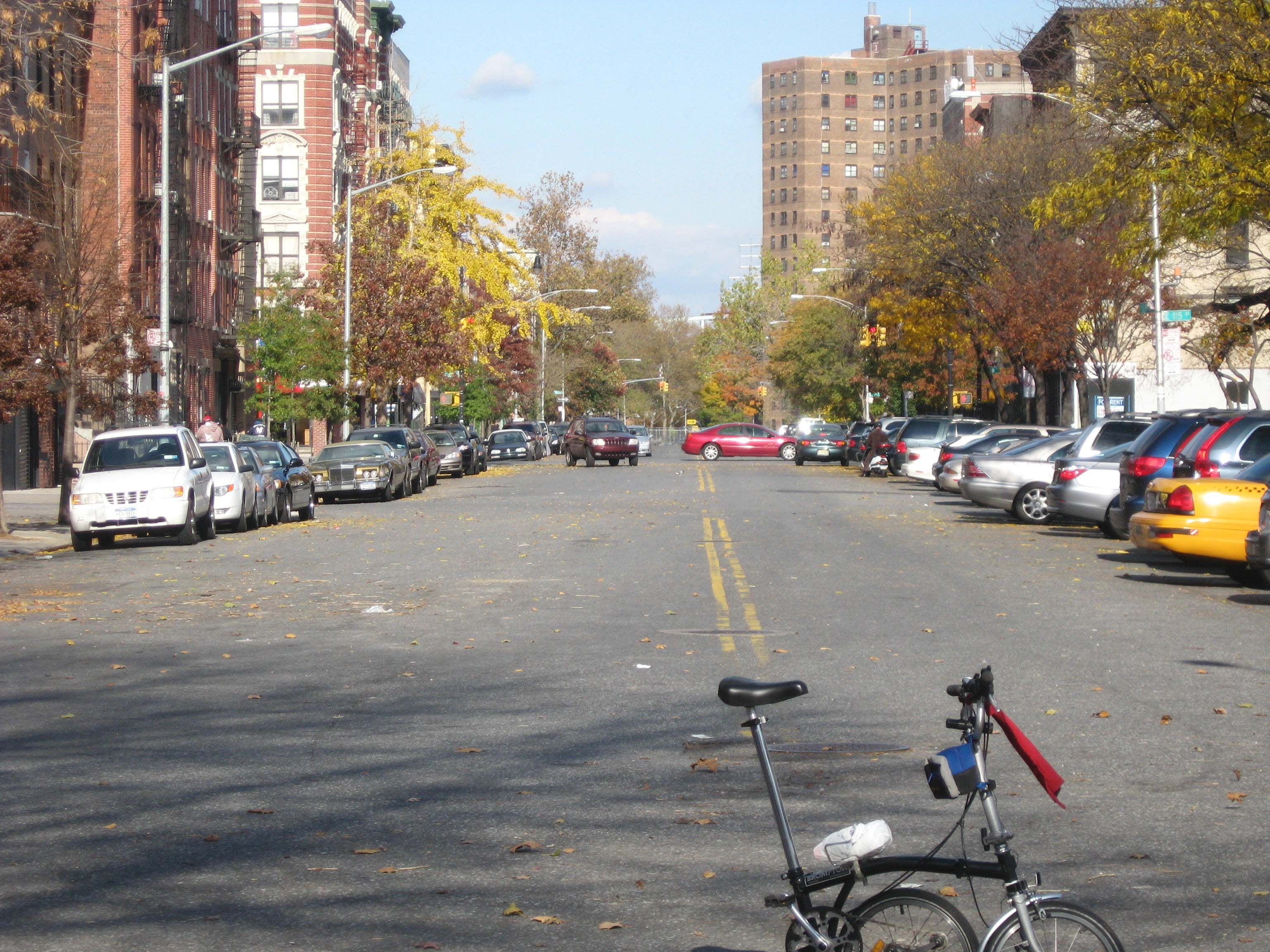 Looking north along Pleasant Avenue from 114th Street on a sunny afternoon.